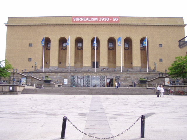 The Art Museum of Gothenburg facade — from directly ahead.